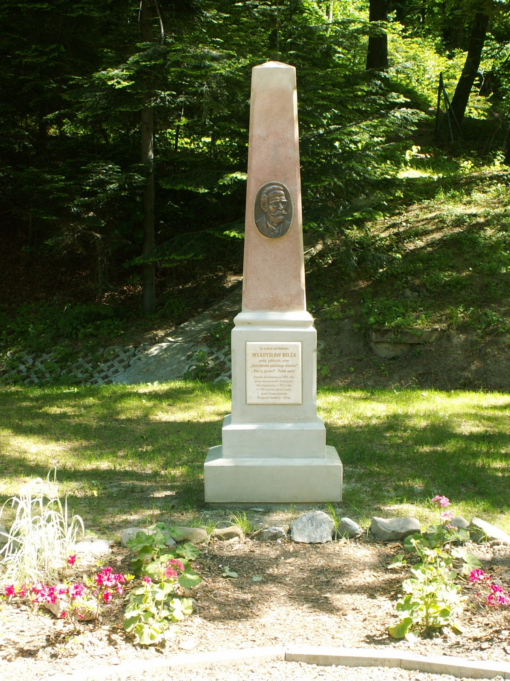 Wladyslaw Belza monument in Iwonicz-Zdroj